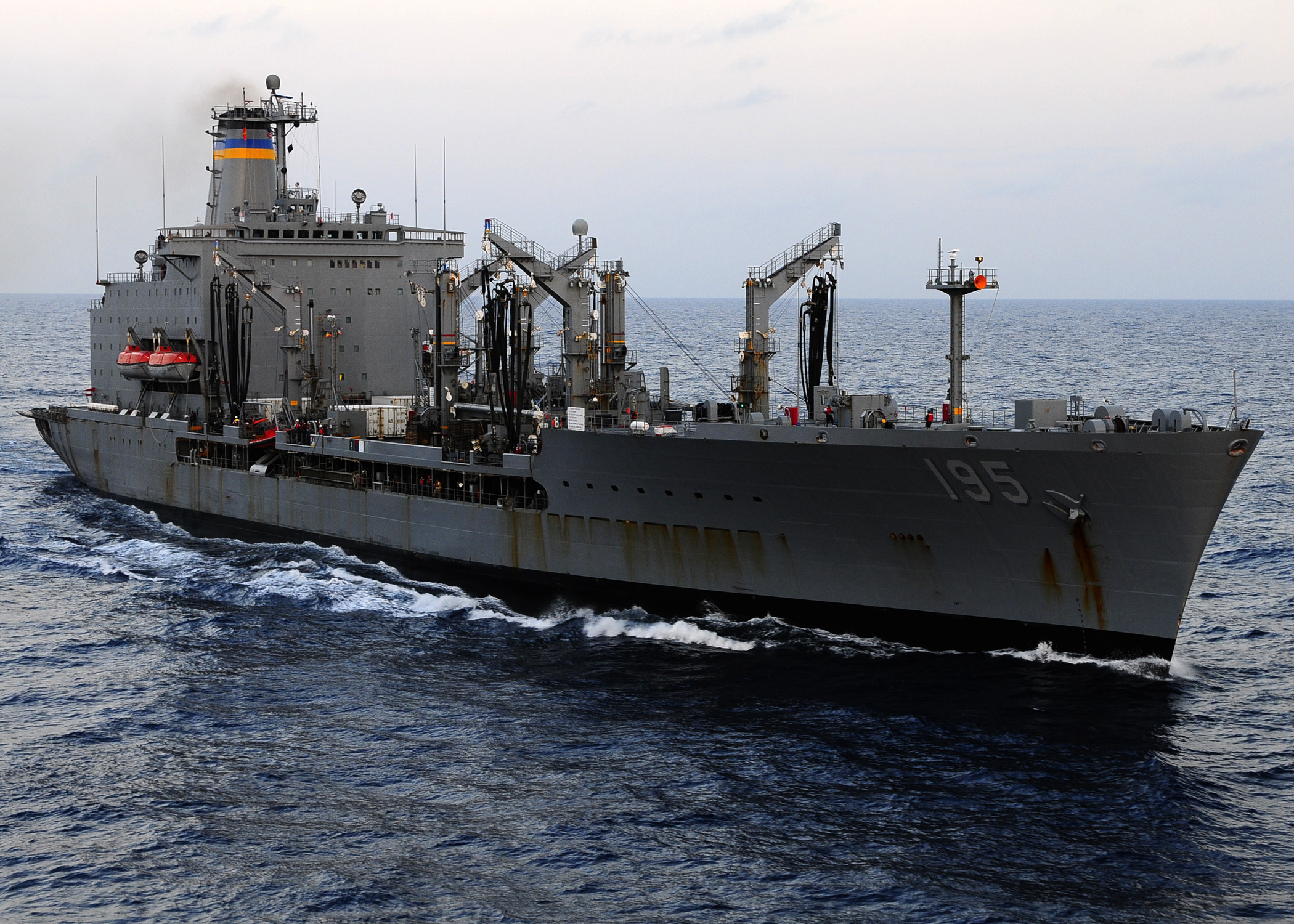 CARIBBEAN SEA (Feb. 22, 2010) Fleet replenishment oiler USNS Leroy Grumman (T-AO 195) approaches the Military Sealift Command hospital ship USNS Comfort (T-AH 20) during an underway replenishment off the coast of Haiti. Comfort temporarily left Haiti to re-supply, but will return to continue supporting Operation Unified Response.